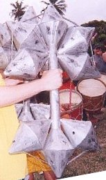 Ganza from Recife